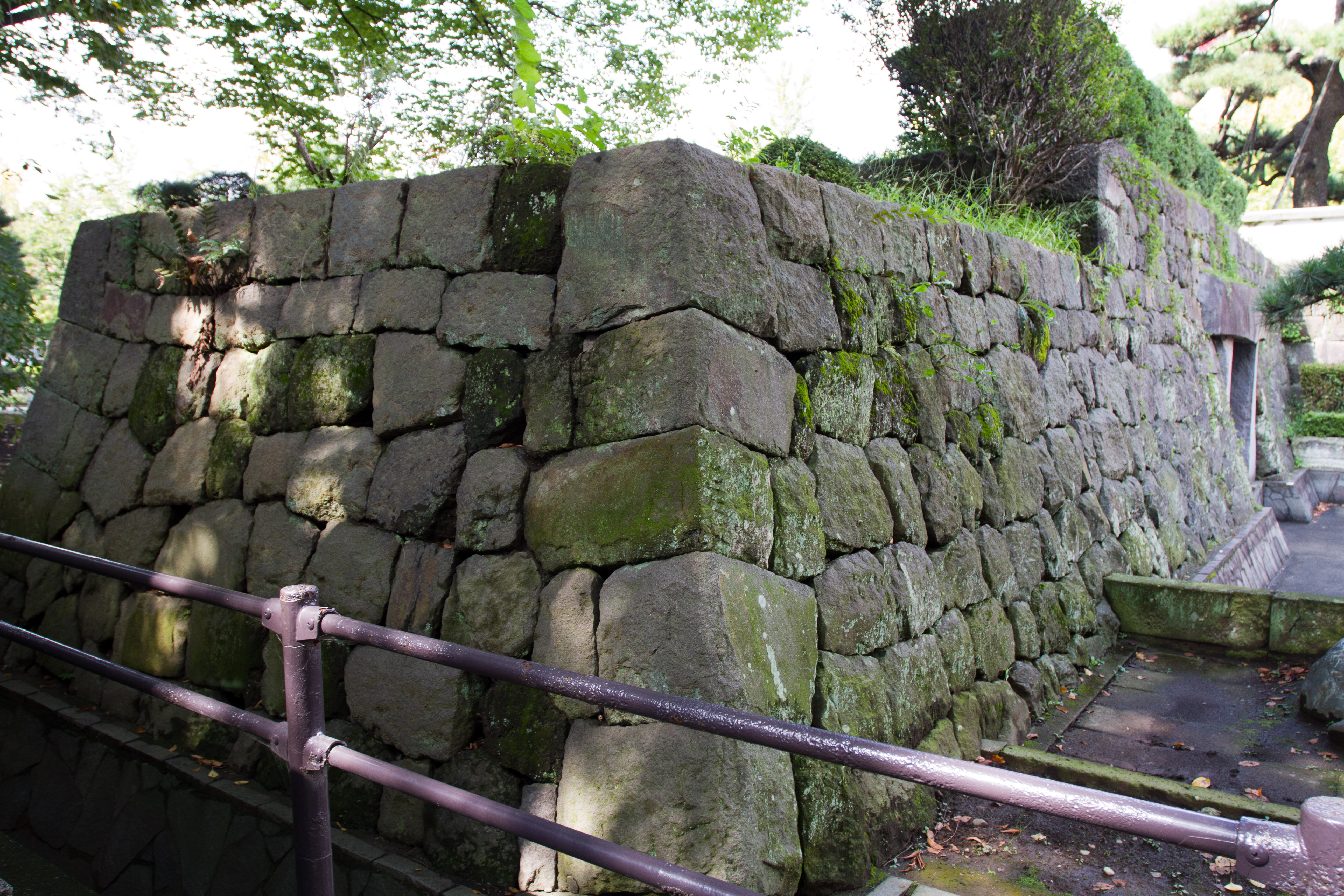 Takasaki Castle